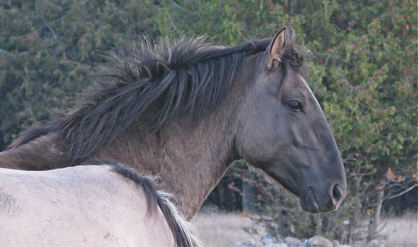 The purebred Sorraia Stallion, Altamiro, showing his convex profile, a distinctive characteristic of the Sorraia phenotype. Altamiro is the foundation stallion of the Ravenseyrie Sorraia Mustang Preserve on Manitoulin Island, Ontario, Canada